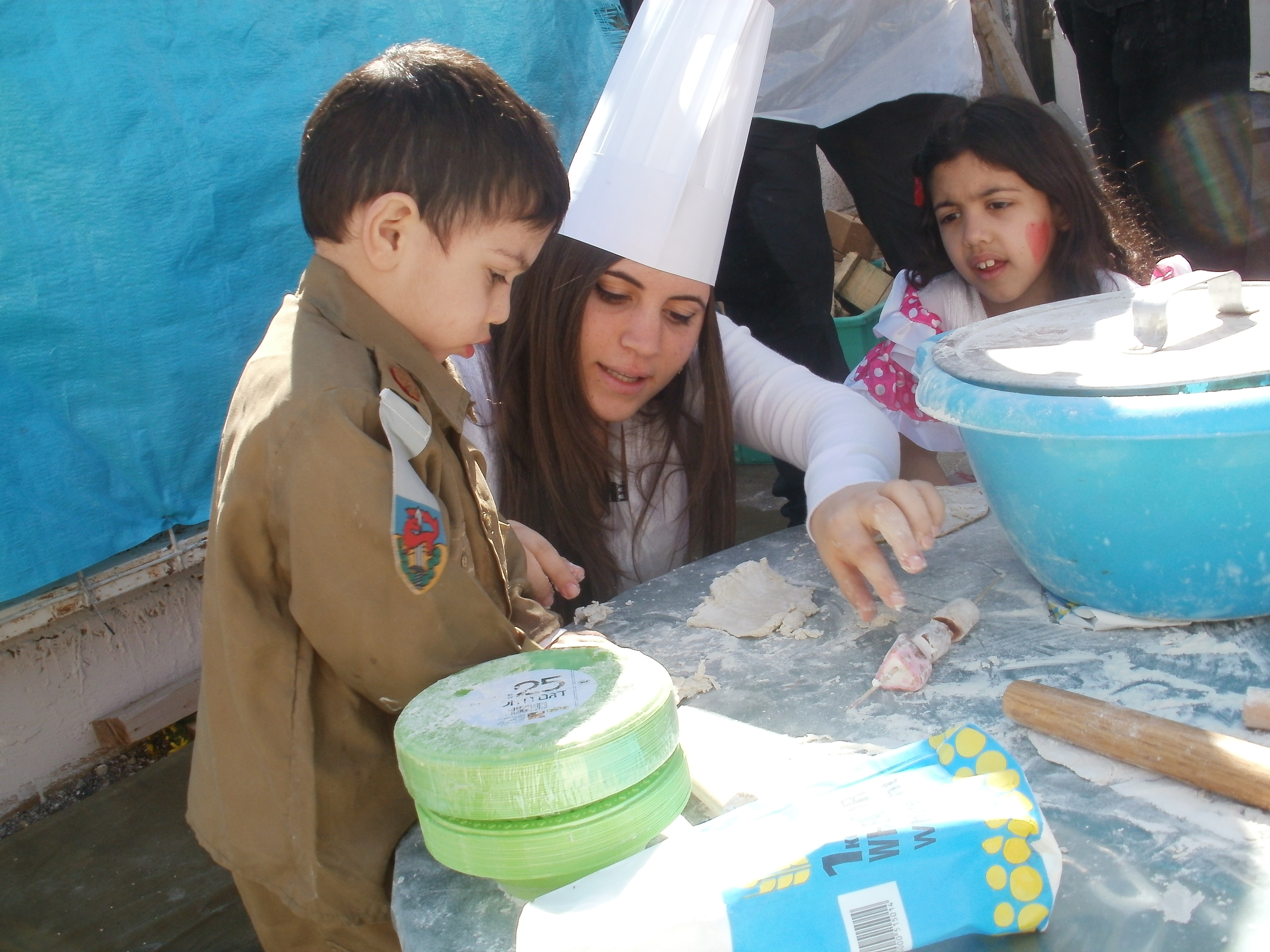 March 8, 2012 IDF soldiers of the 372 C4I Battalion took the day off to organize an outdoor Purim Party to bereaved families of fallen soldiers of the IDF. The soldiers dressed up, played games and cooked "Hamantaschen", the traditional Purim holiday treats. Many IDF soldiers volunteer during holidays, as the army finds it important to give back to the Israeli citizens it serves. The Israel Defense Forces Facebook • blog • Twitter